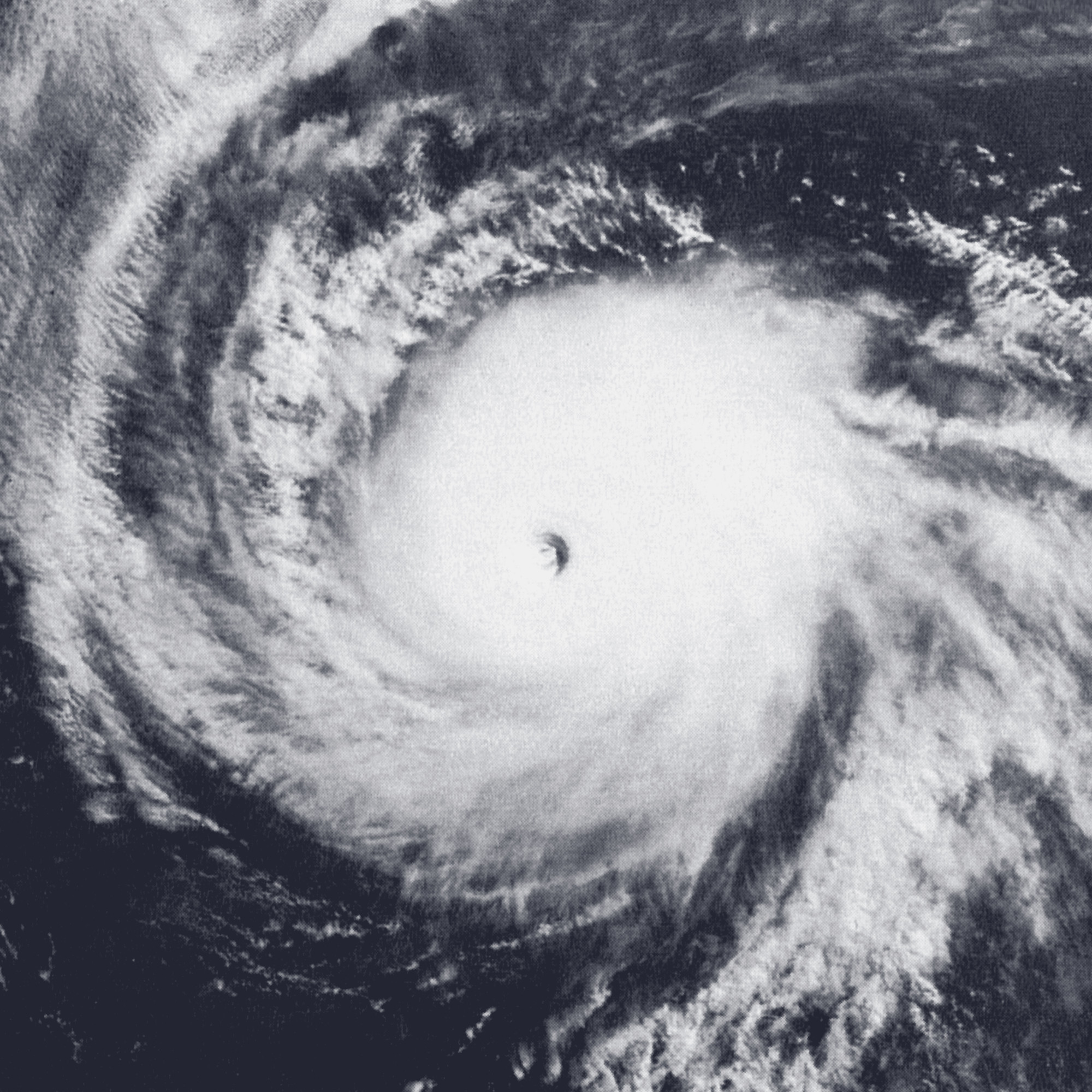 Satellite image of Hurricane Ava